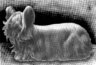 The Paisley Terrier as it appeared in 1903